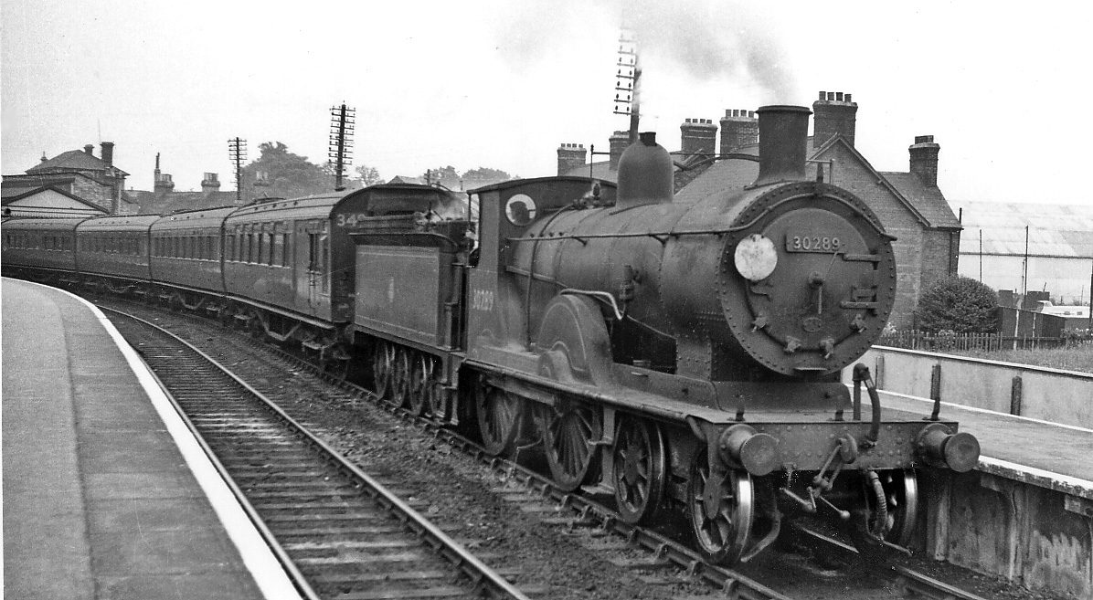 Down stopping train at Poole. View SW, towards Bournemouth etc.: ex-LSW London - Southampton - Bournemouth - Weymouth main line. The 12.50 Eastleigh to Wimborne is headed by ex-LSW Drummond T9 class 4-4-0 No. 30289 (built 2/1900, withdrawn 12/60).